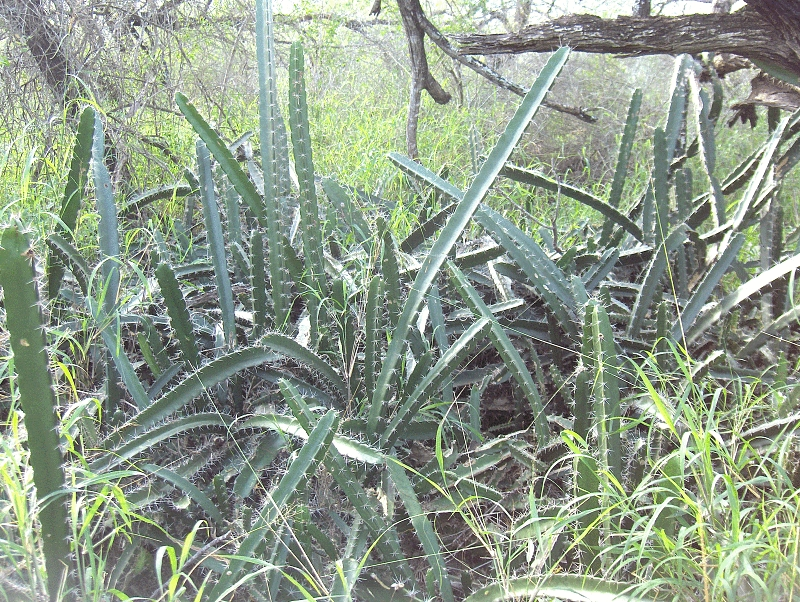 Night Blooming Cereus in South Texas